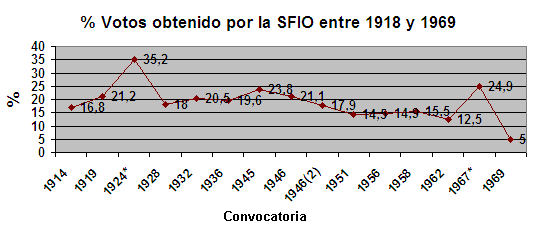 Electoral evolution of SFIO between 1918 and 1969